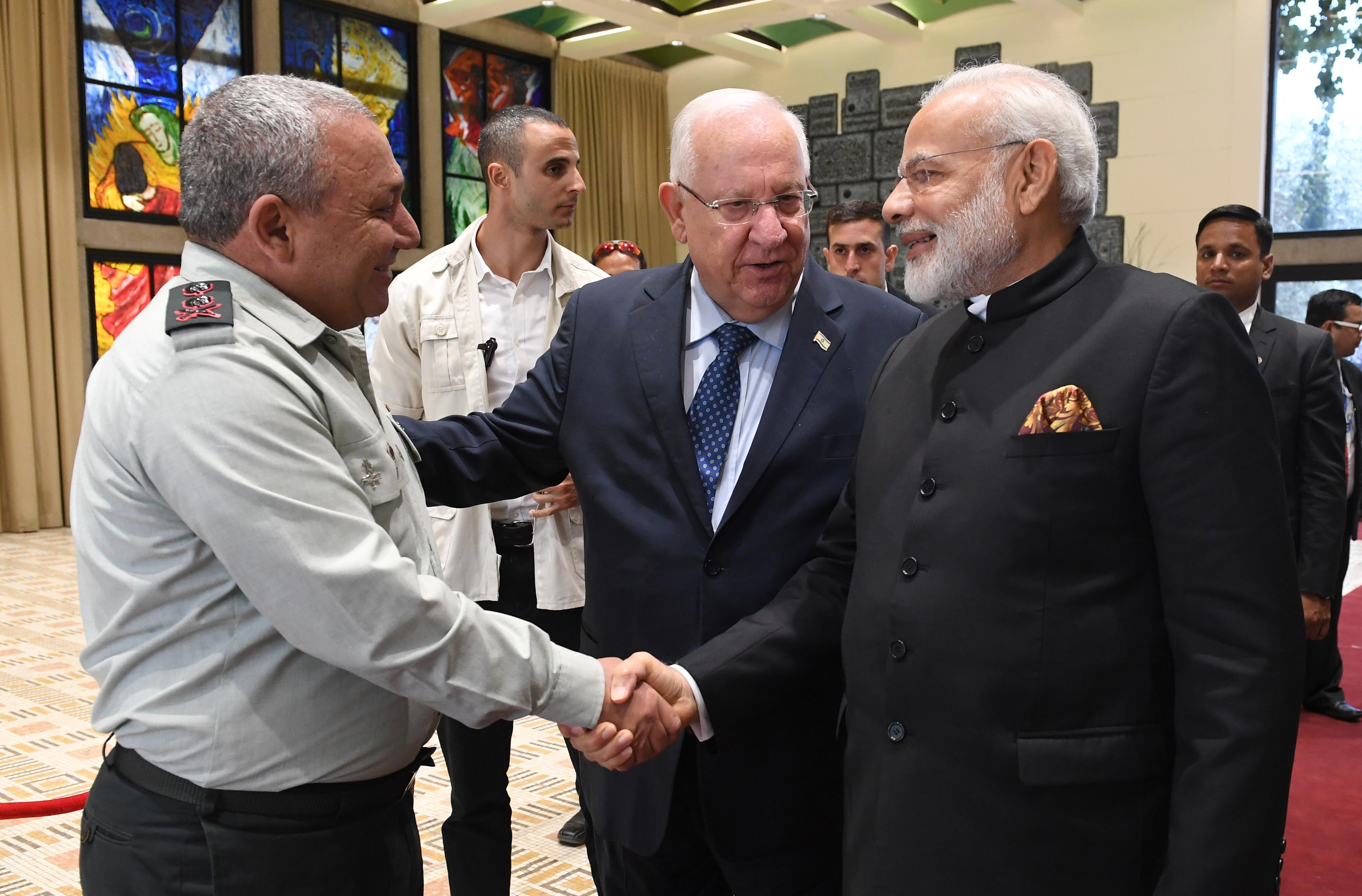 President Reuven Rivlin held a working meeting with Indian Prime Minister Narendra Modi, who is on an official visit to Israel. Wednesday, July 5, 2017. Photo Credit: Mark Neyman / GPO.